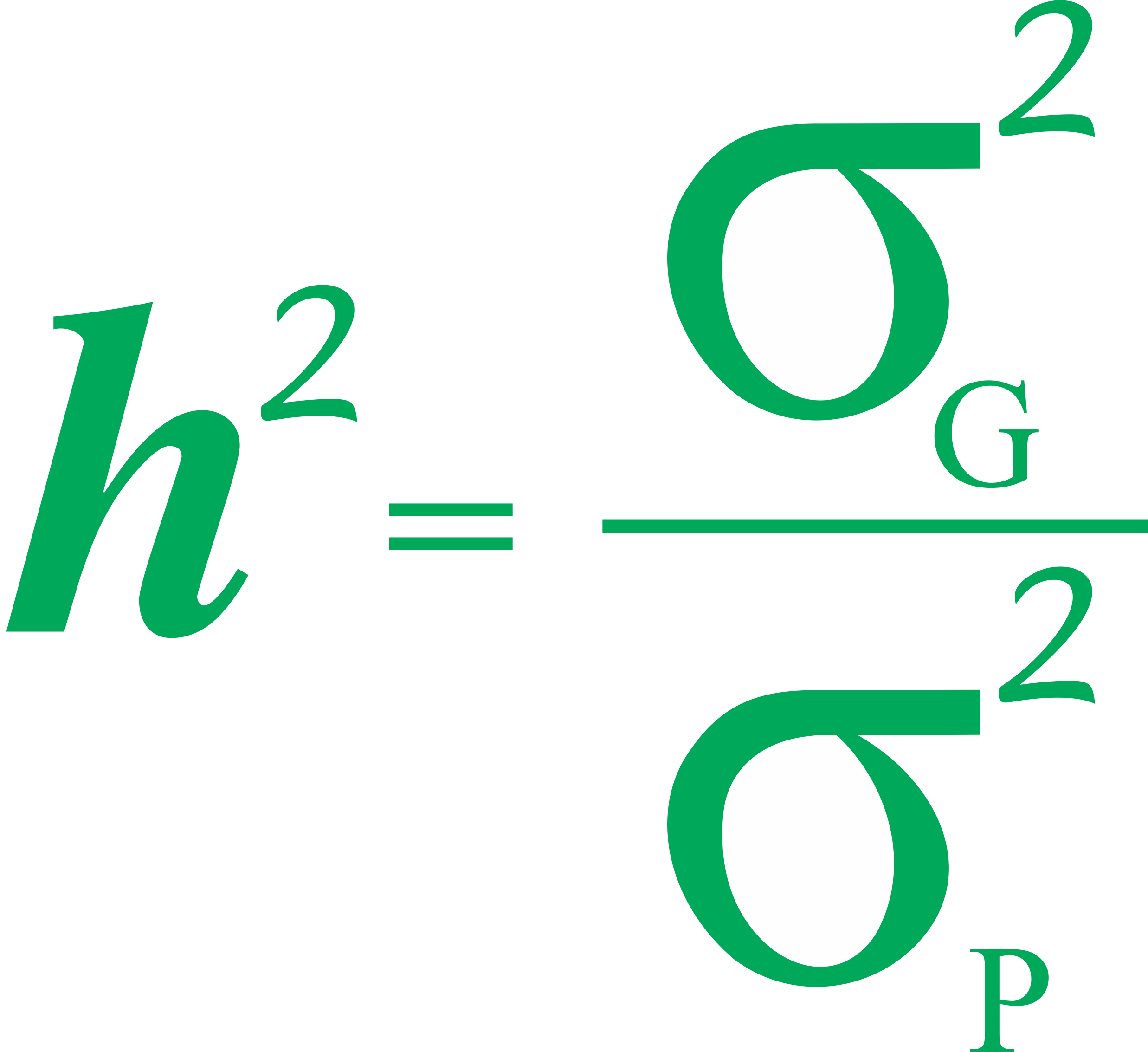 Heritability